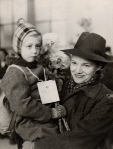 Swiss Red Cross: Children transport from Vienna to Switzerland